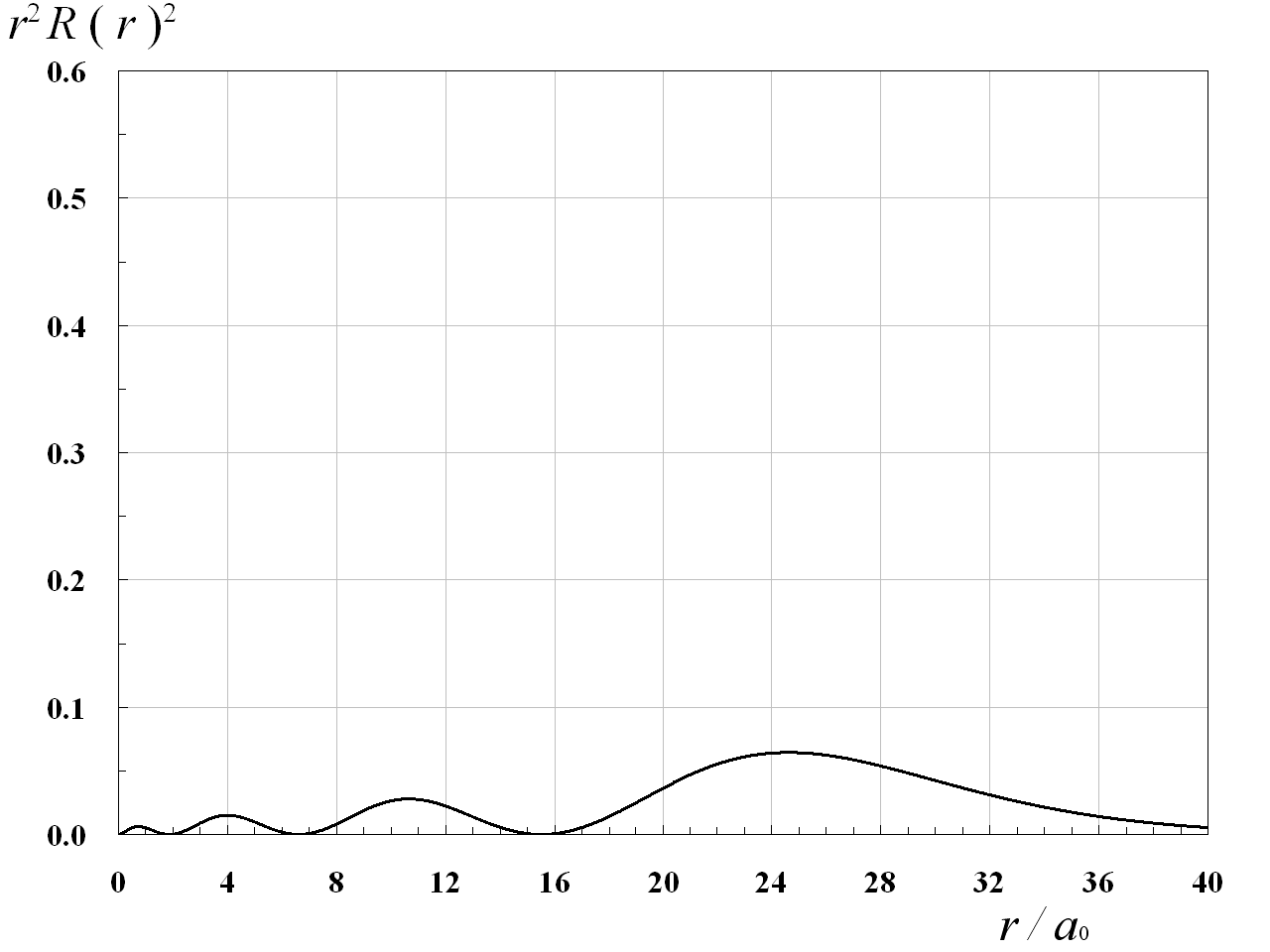 Radial distribution in 4s orbital